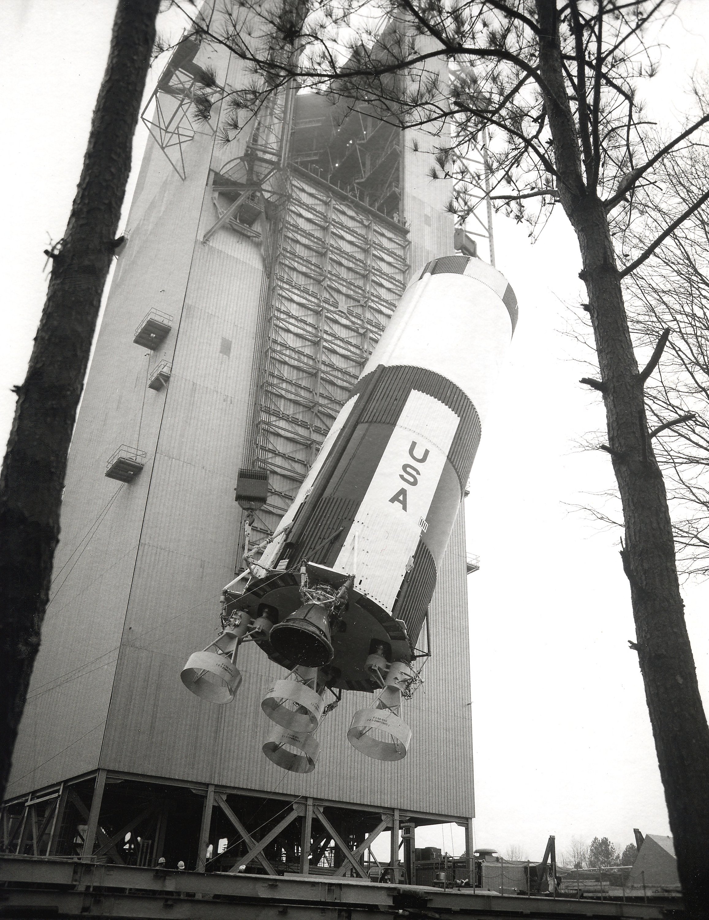 Engineers and technicians at the Marshall Space Flight Center placed a Saturn V ground test booster (S-IC-D) into the dynamic test stand. The stand was constructed to test the integrity of the vehicle. Forces were applied to the tail of the vehicle to simulate the engines thrusting, and various other flight factors were fed to the vehicle to test reactions. The Saturn V launch vehicle, with the Apollo spacecraft, was subjected to more than 450 hours of shaking. The photograph shows the 300,000 pound S-IC stage being lifted from its transporter into place inside the 360-foot tall test stand. This dynamic test booster has one dummy F-1 engine and weight simulators are used at the other four engine positions. The January 19, 1966 Marshall Star ran this image with the caption, "DYNAMICS S-IC MOVED—MSFC technicians last week placed a Saturn V ground test booster (S-IC-D) into the Center's new dynamic test stand. Fog and clouds hovered around the top of the 360-foot tall test stand most of the day while the 300,000 pound stage was being lifted from its transporter into place inside the stand, said to be the tallest building in Alabama. While certain tests will be conducted using only the booster or first stage, later two upper stages, an instrument unit and a dummy Apollo spacecraft will be placed atop the booster for dynamic testing. The 360 foot tall space vehicle will be 'shaken' to determine vibration and bending characteristics. This 139-foot long test booster, built by the Boeing Co. at the Michoud Assembly Facility in New Orleans, is one of four being moved between various assembly and test stations at the Marshall Center during the next 10 days. The dynamic test booster has one dummy Rocketdyne F-1 engine; weight simulators are used at the other four engine positions."